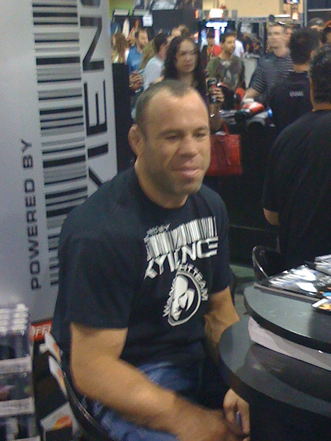 Wanderlei "The Axe Murderer" Silva with fans - UFC 100 Fan Expo - Mandalay Bay Casino, Las Vegas